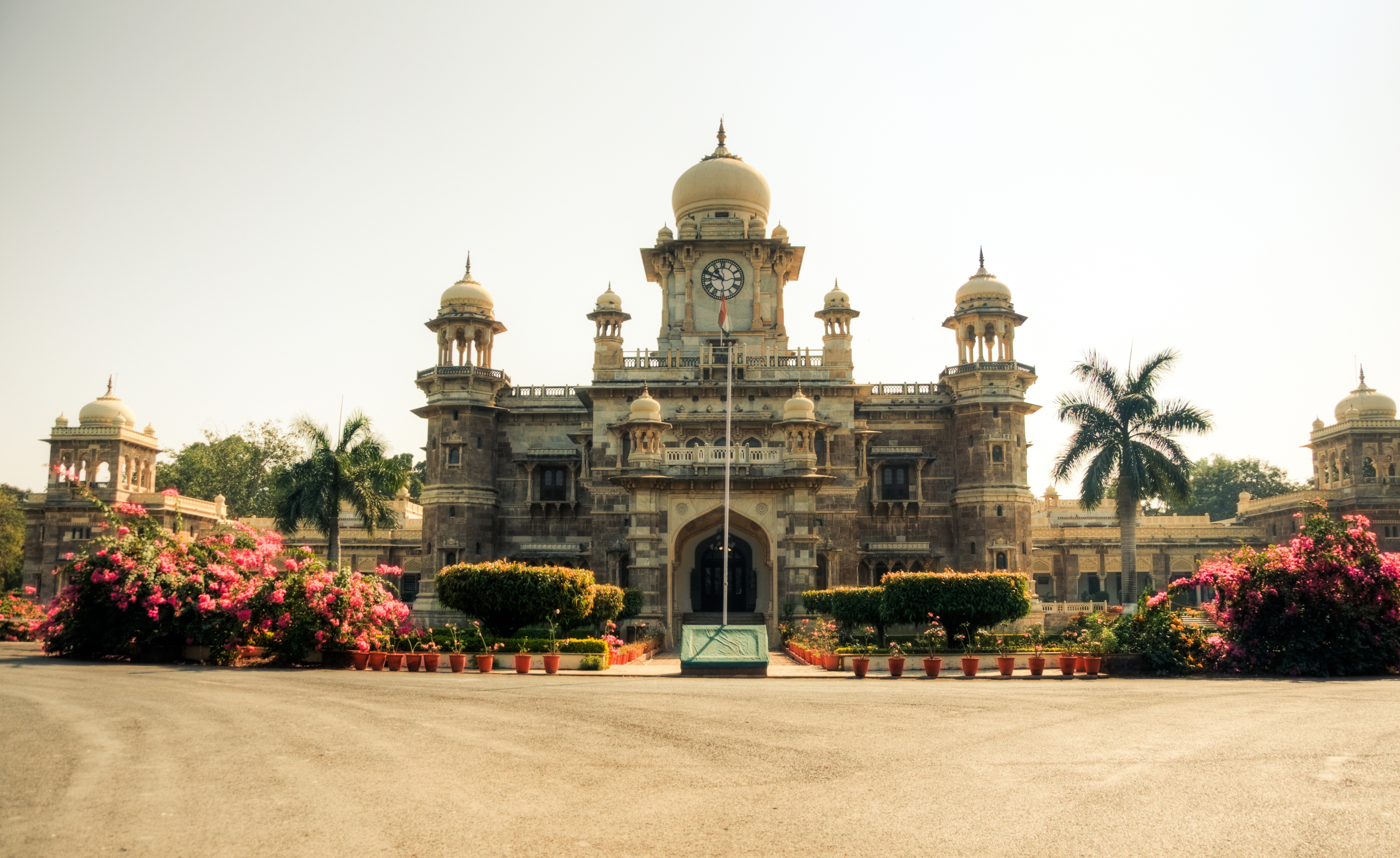 Just an HDR of the main building. Hope you like it.